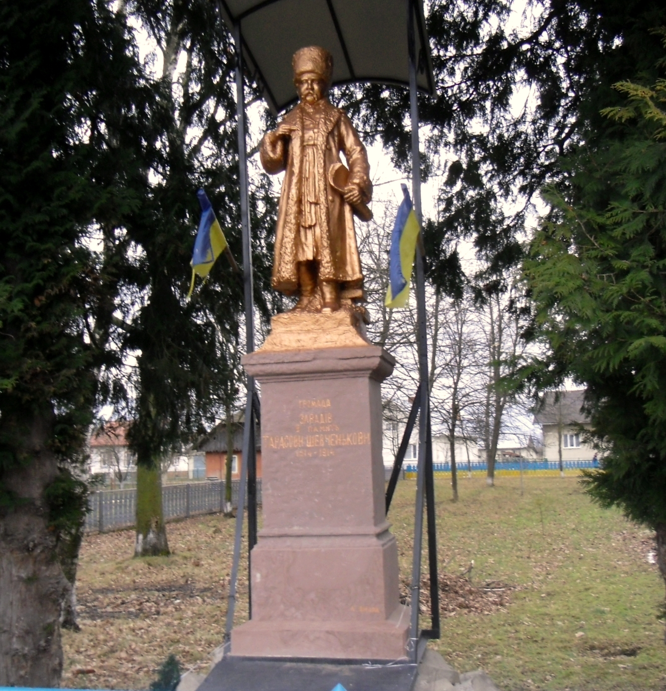 One of the oldest monuments to Taras Shevchenko in the village Zavadiv (Stryi Raion) (stone, 1914 – 1916).